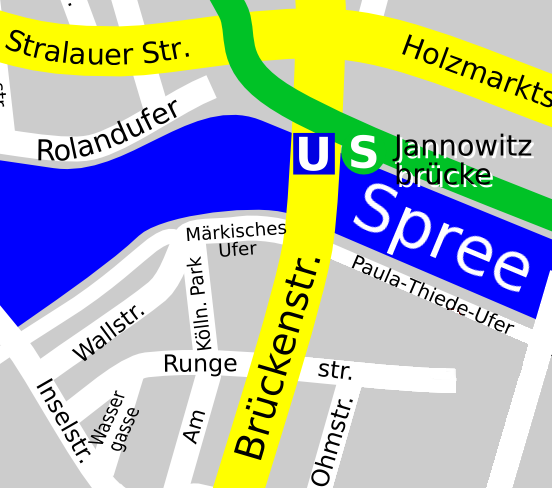 Map of the Jannowitzbrücke